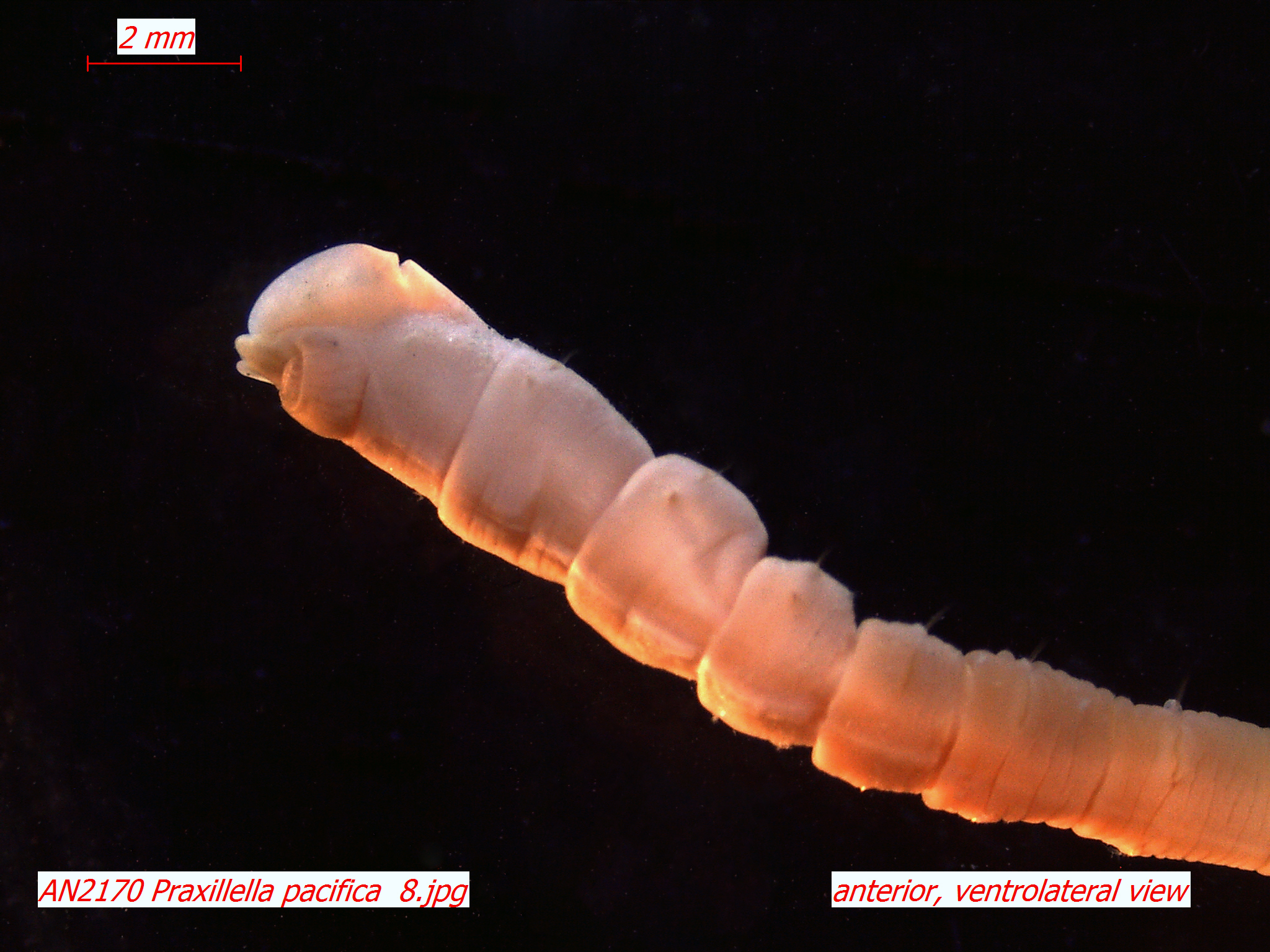 Collected from Puget Sound sediments and photographed by the Washington State Department of Ecology’s Marine Sediment Monitoring Team. For more information about this team’s work visit